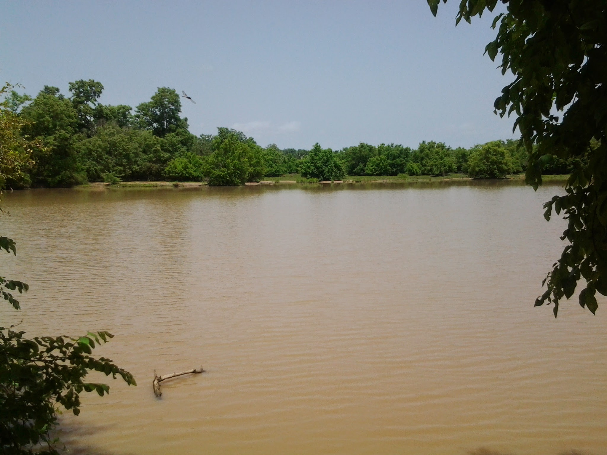 This water park is a major source of drinking water for the animals at the Mole National Park